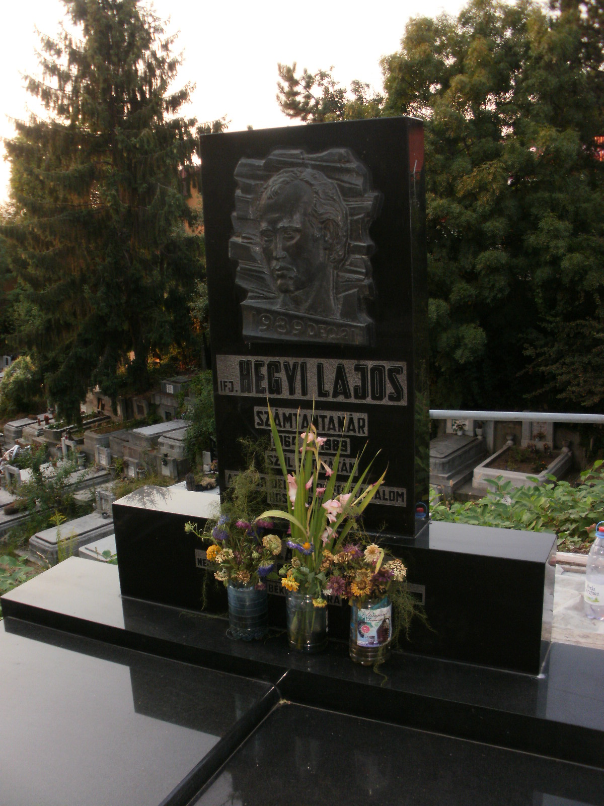 grave of mathematician Hegyi Lajos in Tirgu Mureş